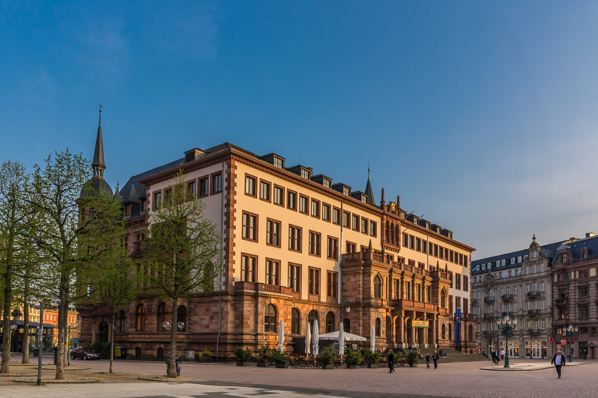 New town hall of Wiesbaden.